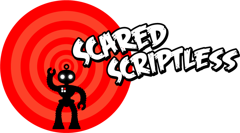 Scared Scriptless poster design